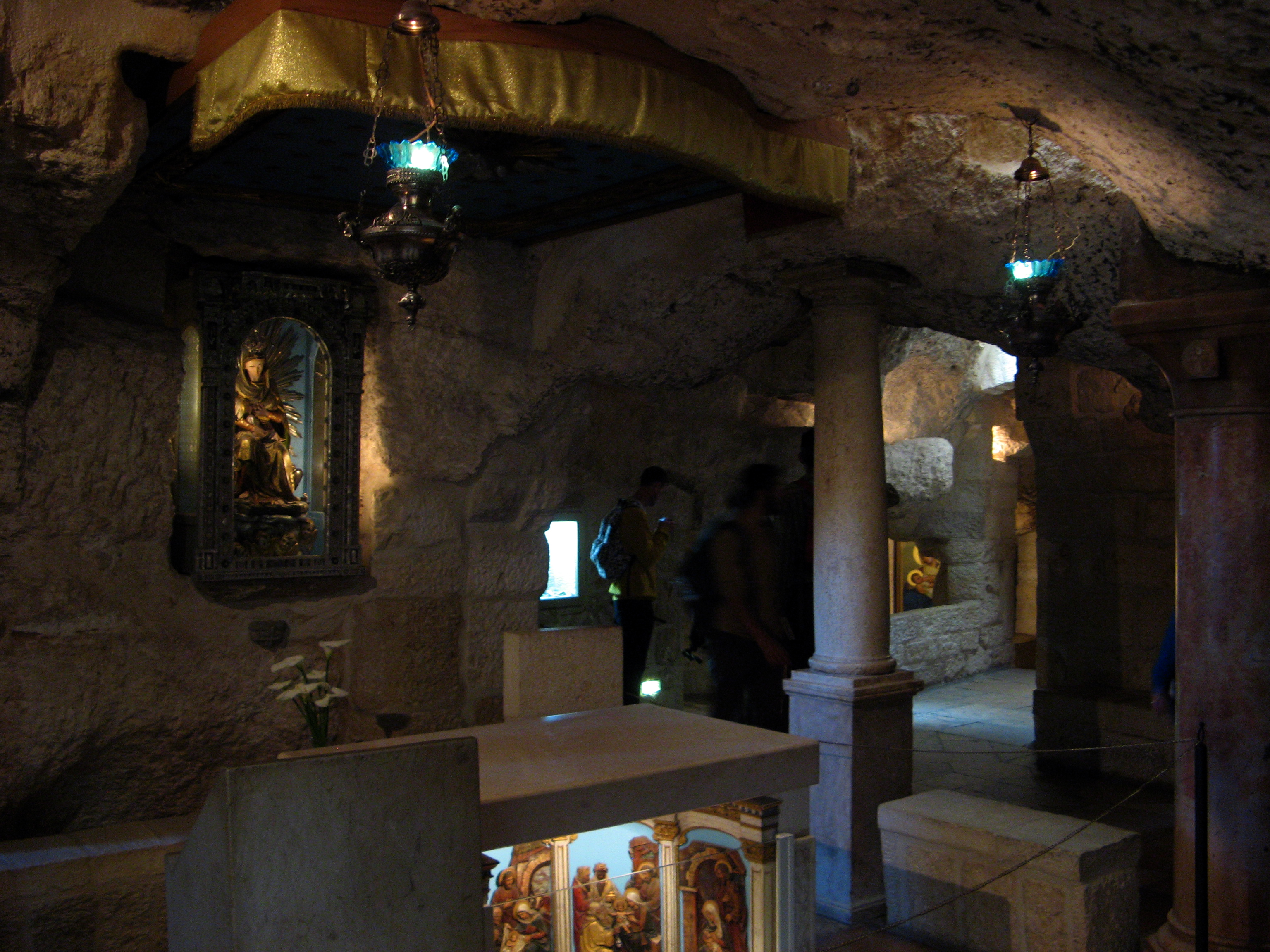 Milk Grotto in Bethlehem